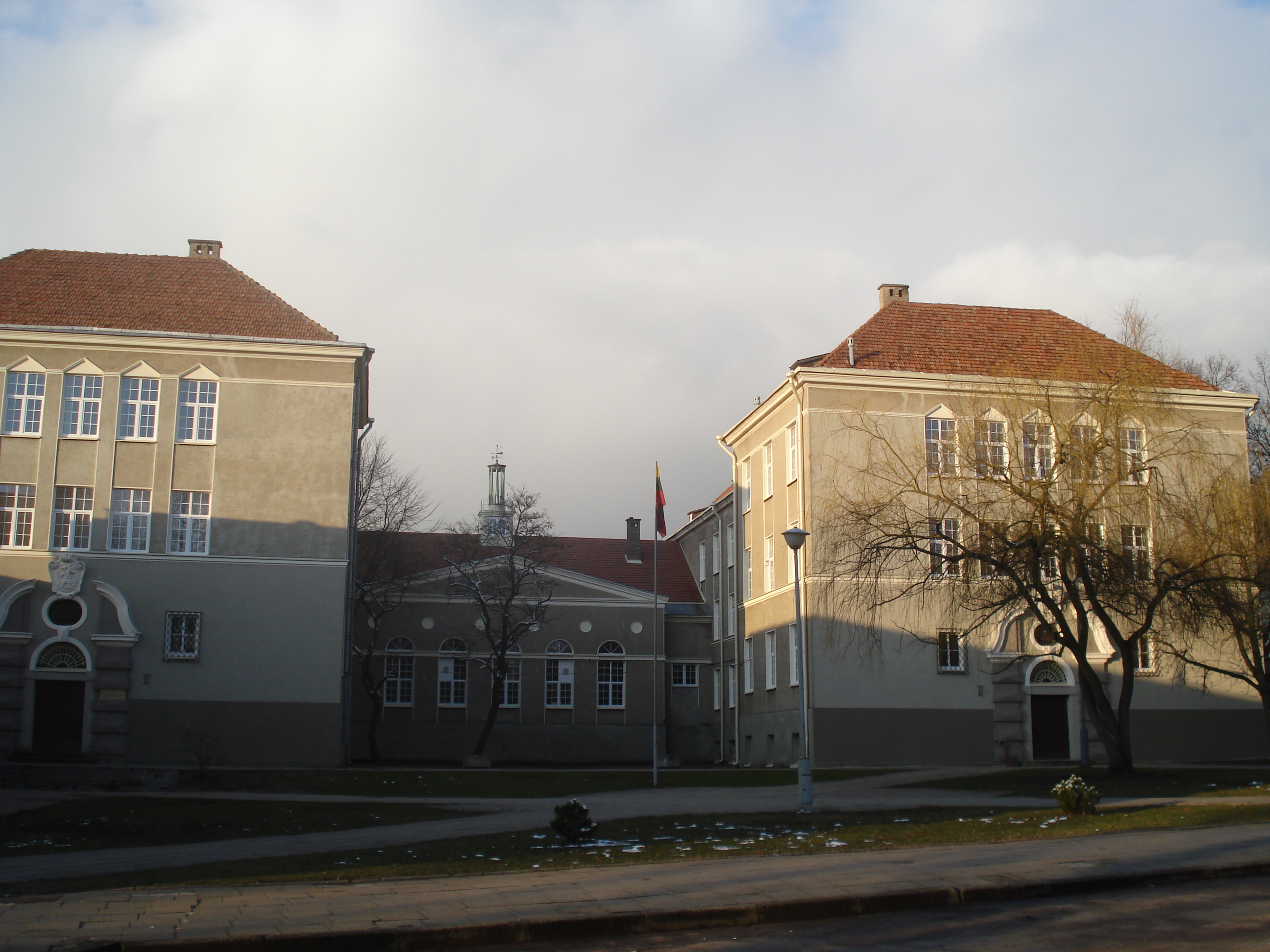 Building of the Antakalnis Secondary School, built 1930-1931 by Polish architect Stefan Narębski (1892-1966)